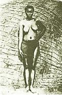 this is a historical image of the of Dunn's wife , I'm using this image on Dunn's article